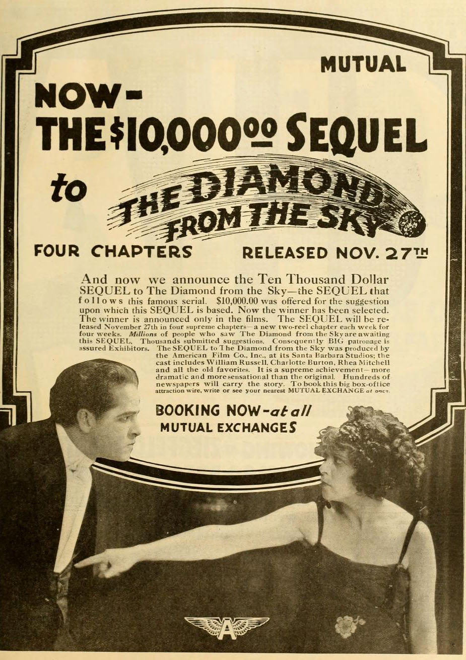 Advertisement in Moving Picture World